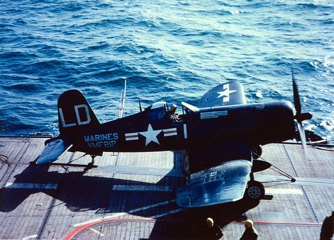 A U.S Marine Corps Vought F4U-4 Corsair from Marine Fighter Squadron VMF-212 is on the catapult ready for a launch from the U.S. Navy escort carrier USS Badoeng Strait (CVE-116) for a combat strike in Korea. Note the ca. 90 mission markers on the plane.